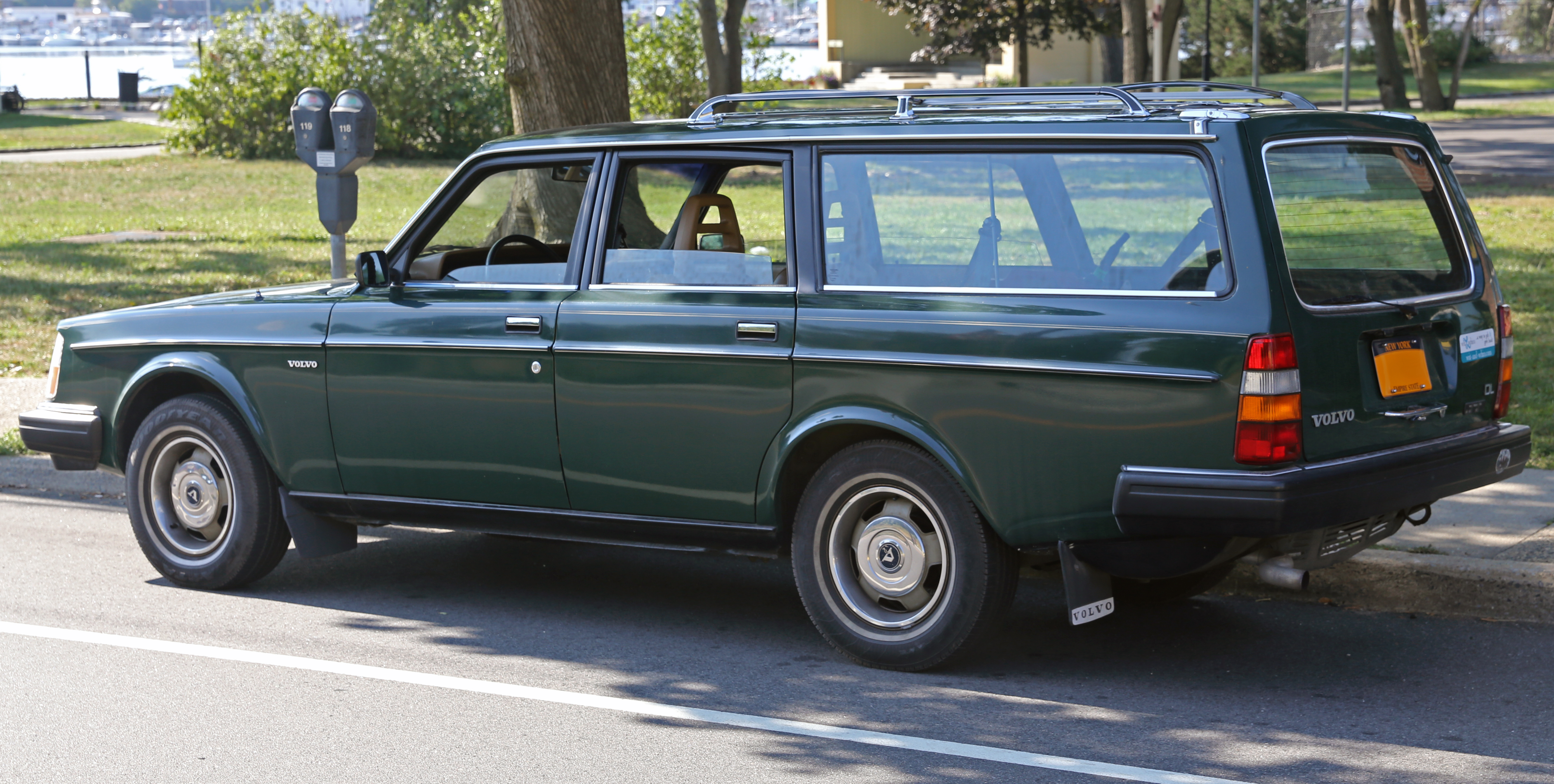 A 1983 Volvo (245) DL. This has the usual 2.3 liter B23 engine.